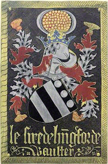 Le Sire de H(u)ng(er)forde, Waulter. Garter stall plate, Windsor Castle, of Walter Hungerford, 1st Baron Hungerford (1378/9-1449), KG. "A fine quadrangular plate in the form of a banner with wreathed and gilded staff and gold fringe. On the field, which is cross-hatched and coloured a dull black, are the arms: Sable, two bars argent in chief three plates (Hungerford), and a silver helm covered by a mantling barry of ermine and gules within and without (arms of Hussey), and with dagged edges and red and gold tassels, surmounted by the crest: Within a crest coronet azure a garb or between two sickles argent. The garb is filled in with red, and the sickles have serrated cutting edges. Two or three (usually interlaced) sickles were used as a badge by the Hungerford family. The helm is turned to the sinister so as to face the High Altar". (Plate XLIX from W H St John Hope: The Stall Plates of the Knights of the Order of the Garter 1348-1485, 1901)